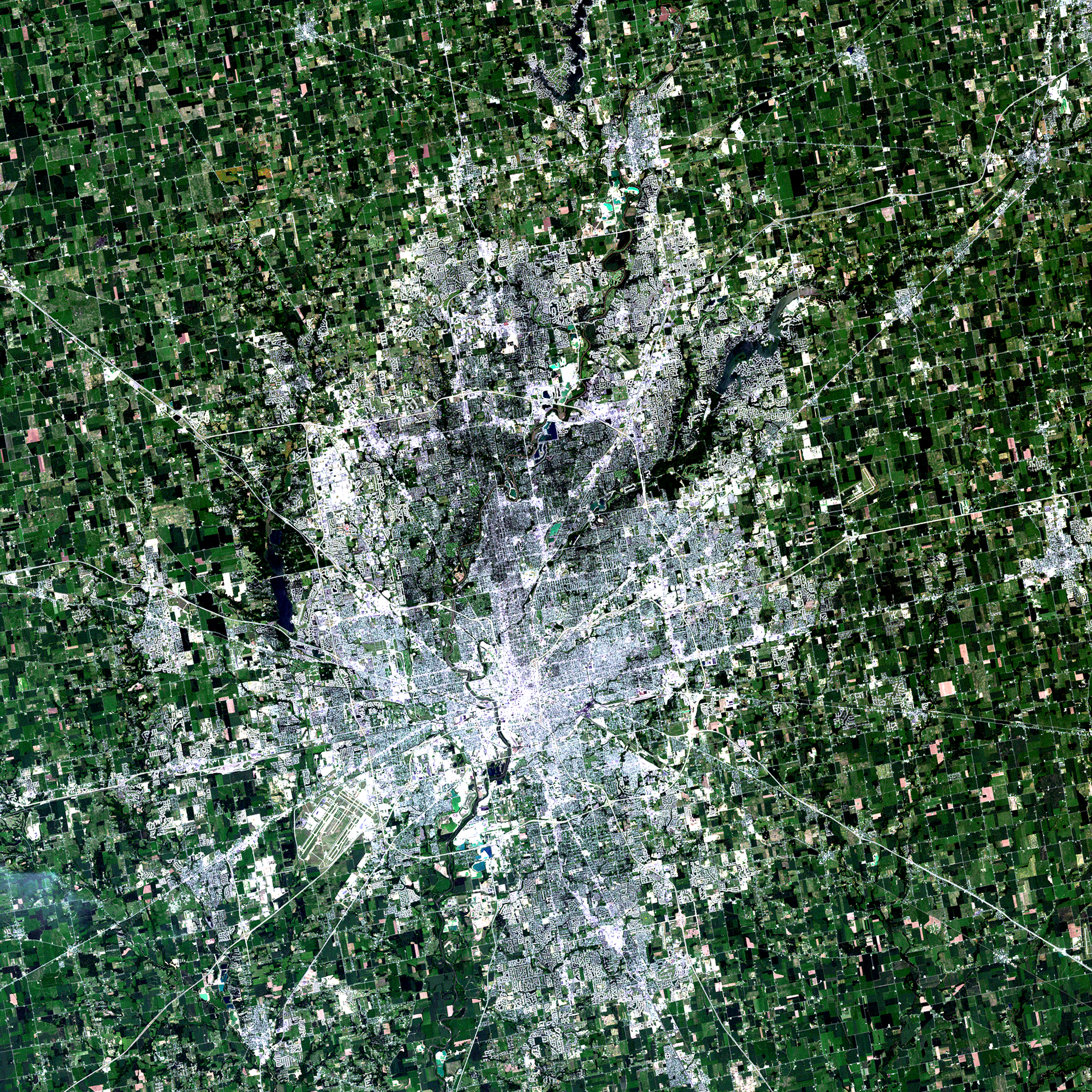 Landsat 7 image of Indianapolis, Indiana acquired July 11, 2001 Landsat 7 is a U.S. satellite used to acquire remotely sensed images of the Earth's land surface and surrounding coastal regions. It is maintained by the Landsat 7 Project Science Office at the NASA Goddard Space Flight Center in Greenbelt, MD. Landsat satellites have been acquiring images of the Earth’s land surface since 1972. Currently there are more than 2 million Landsat images in the National Satellite Land Remote Sensing Data Archive. For more information visit: To learn more about the Landsat satellite go to: Credit: NASA/GSFC/Landsat 7 NASA image use policy. NASA Goddard Space Flight Center enables NASA’s mission through four scientific endeavors: Earth Science, Heliophysics, Solar System Exploration, and Astrophysics. Goddard plays a leading role in NASA’s accomplishments by contributing compelling scientific knowledge to advance the Agency’s mission. Follow us on Twitter Like us on Facebook Find us on Instagram